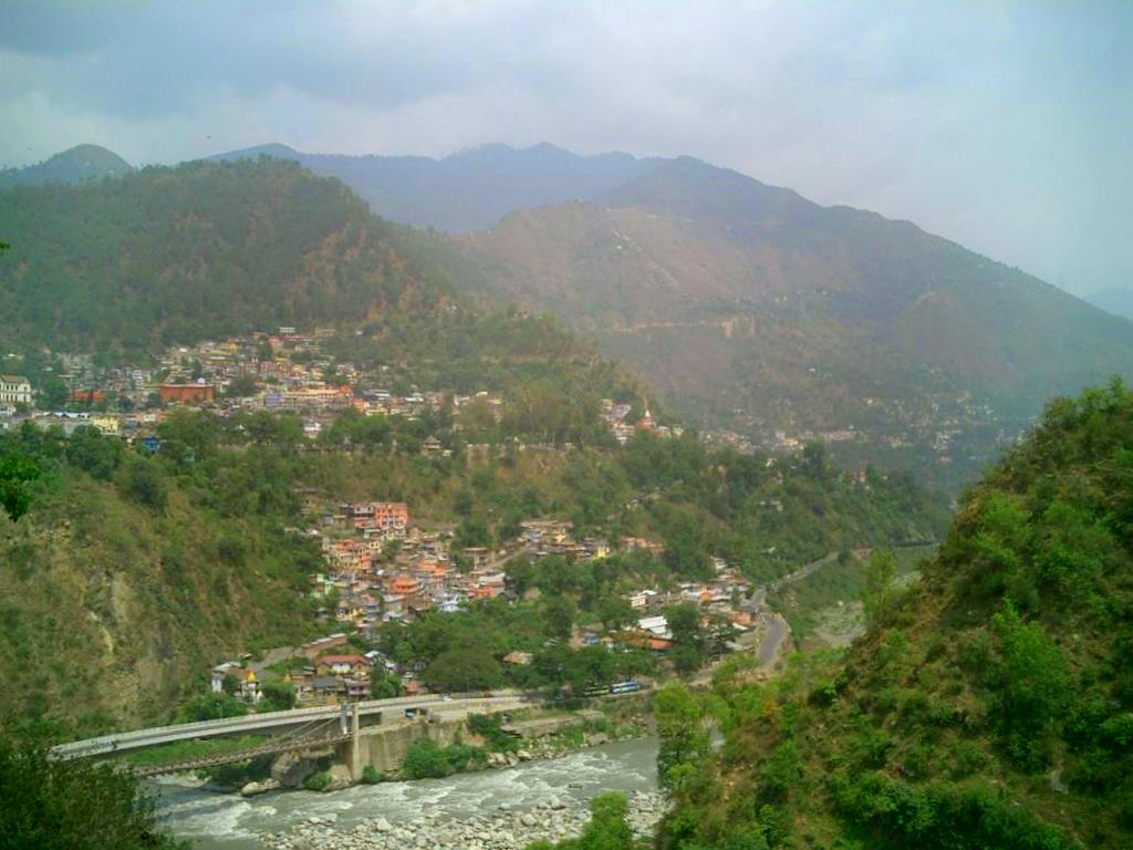 Chamba from across the river, Himachal Pradesh.